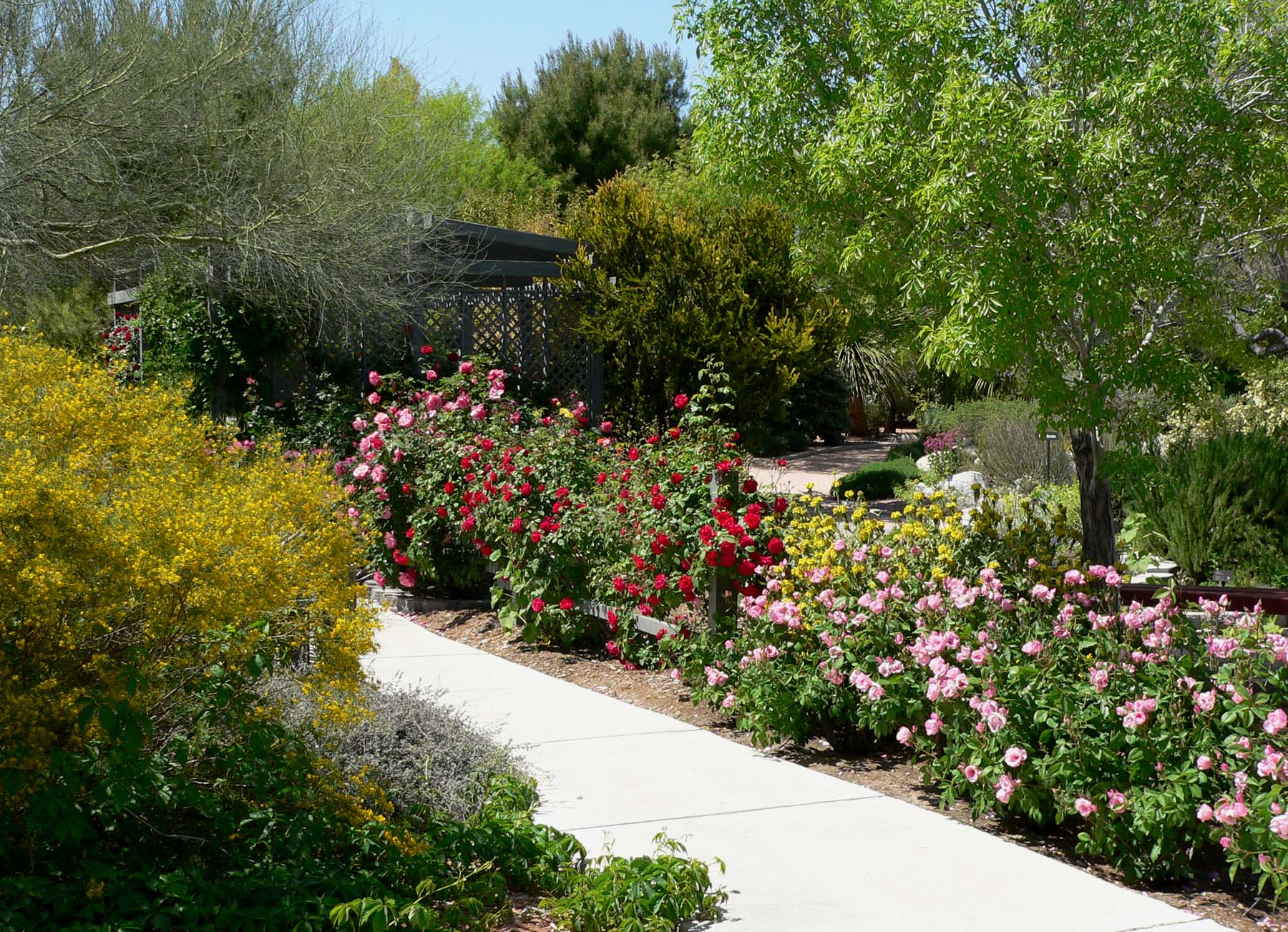 Photo of rose area at the Desert Demonstration Garden in Las Vegas, Nevada